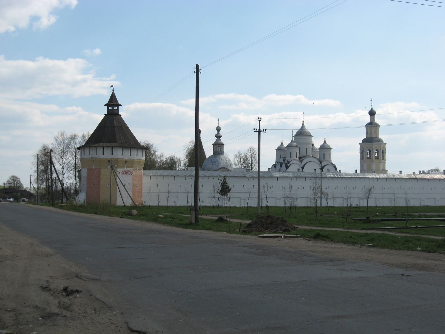 Priluki monastery near Vologda, Russia, 2008